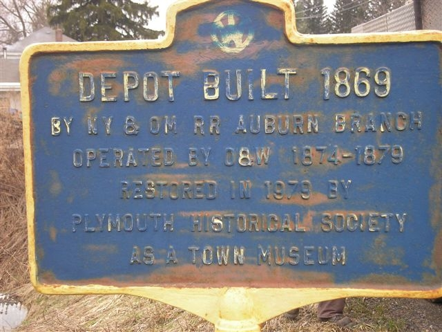 Historic marker of NY & OM Railroad, Auburn Branch depot built in 1869 and operated by the O&W Railroad in Plymouth NY. Restored in 1979 by the Plymouth Historical Society as a Town Museum.